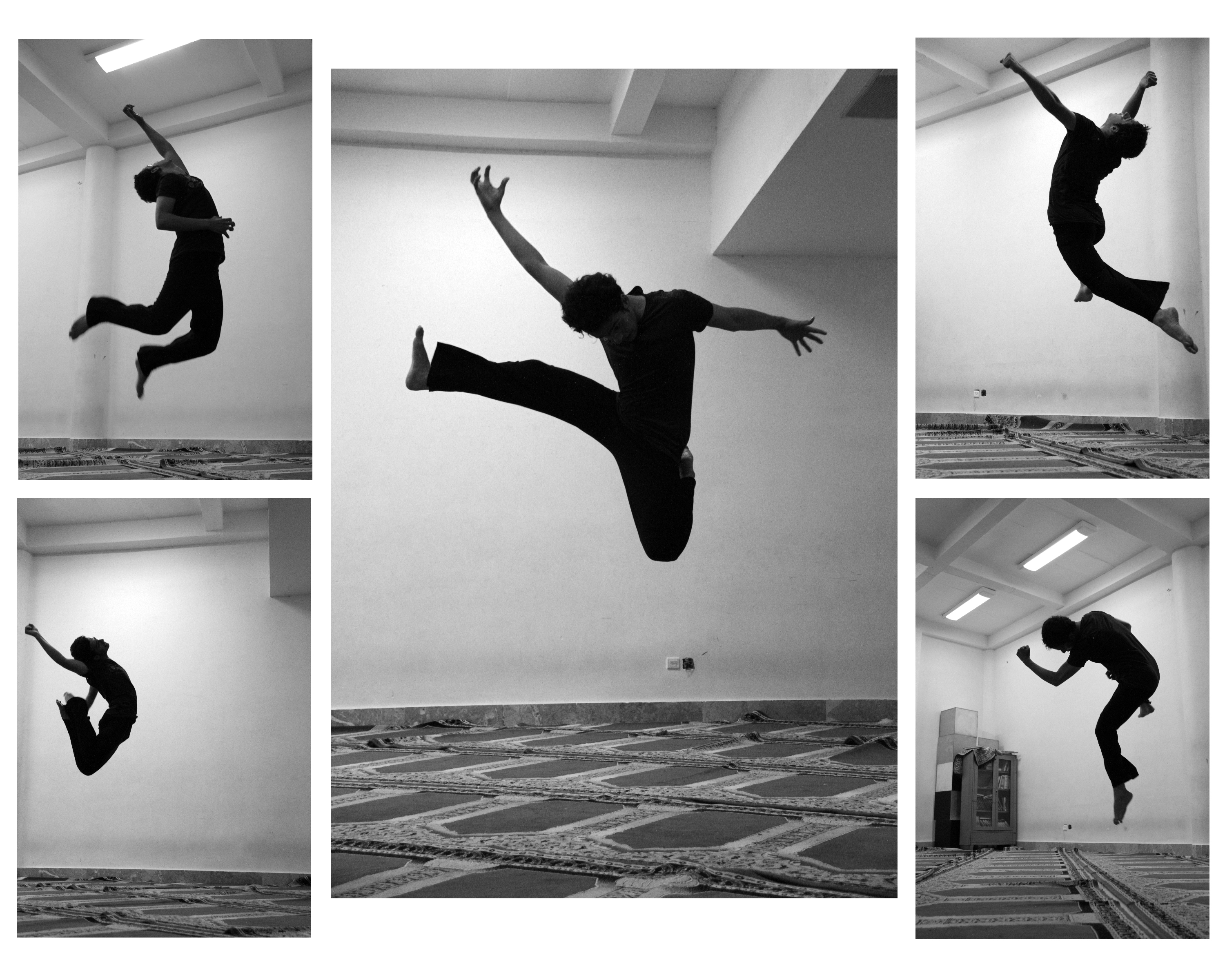 Garage Theater Company is an amateur experimental theater group from Qom, Iran, researching and practicing in the field of theatre laboratory. The group attempts to develop these techniques and vernacularize them in order to give them a native identity. Garage Theater Company believes that a play, like a vehicle in an auto shop, should be diagnosed and repaired. Even though the vehicle is able to move forward, it needs care and troubleshooting. During each training period, the group members prepare exercises and workshops for developing acting methods in order to utilize different potentialities of text and contextualization